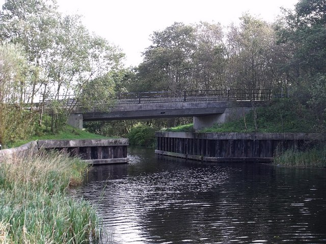 Craigmarloch Bridge over Forth & Clyde Canal